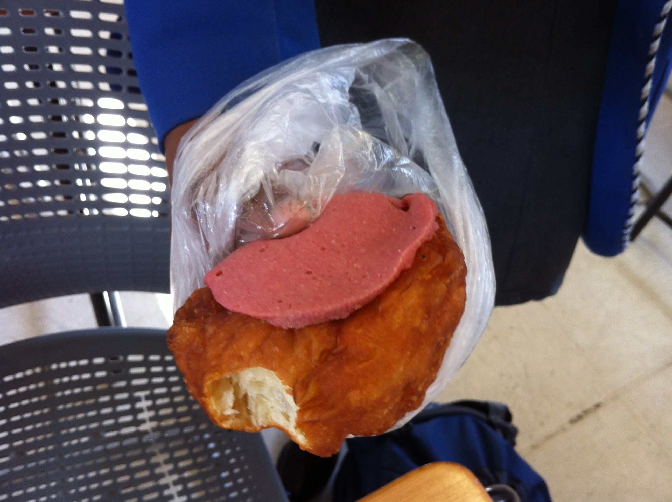 a fat cake (Vetkoek) served at Sinenjongo High School